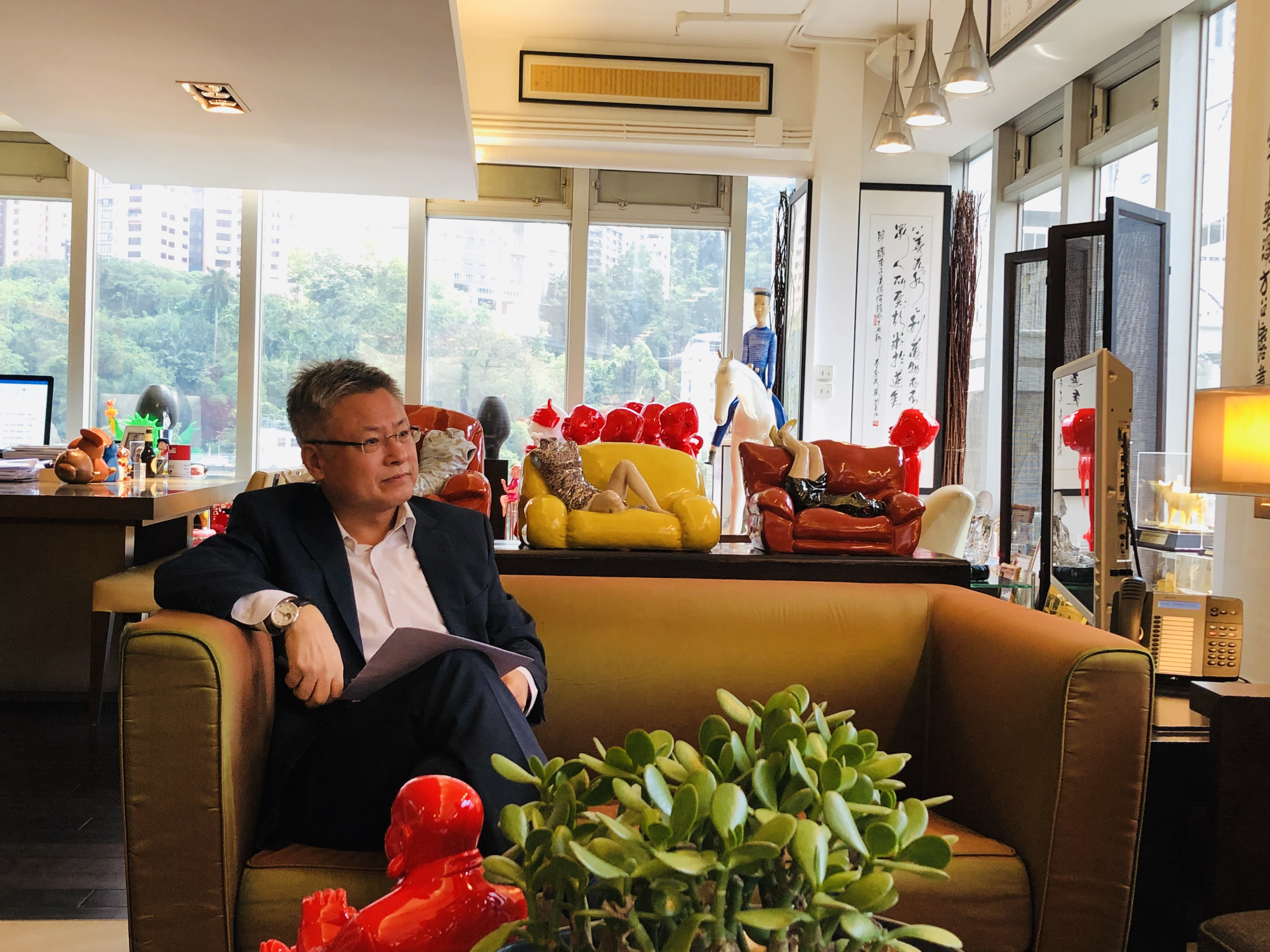 Academia